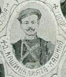 Portrait of IMARO member Dimitar Kashinaliyata from Kashina